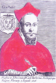 Cardinal Maffeo Barberini, future Pope Urban VIII